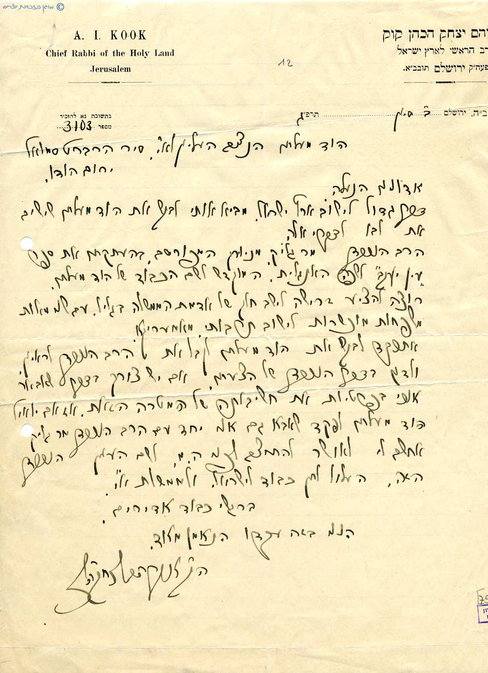 letter from rav a.i. kook to herbert samuel